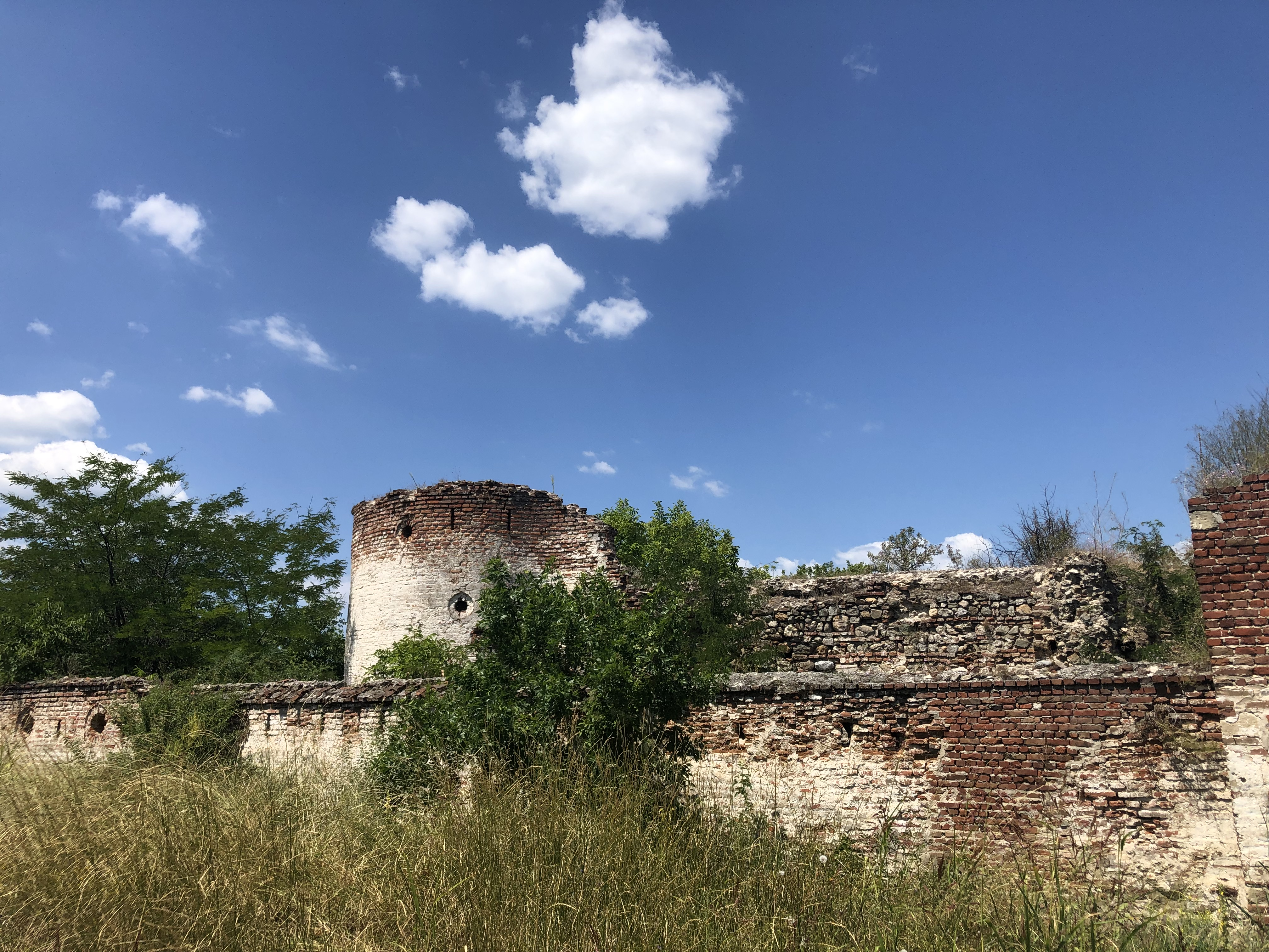 Fetislam fortress is located in Serbian city of Kladovo. It was constructed by ordres of Suleiman the Magnificent in 16th century.